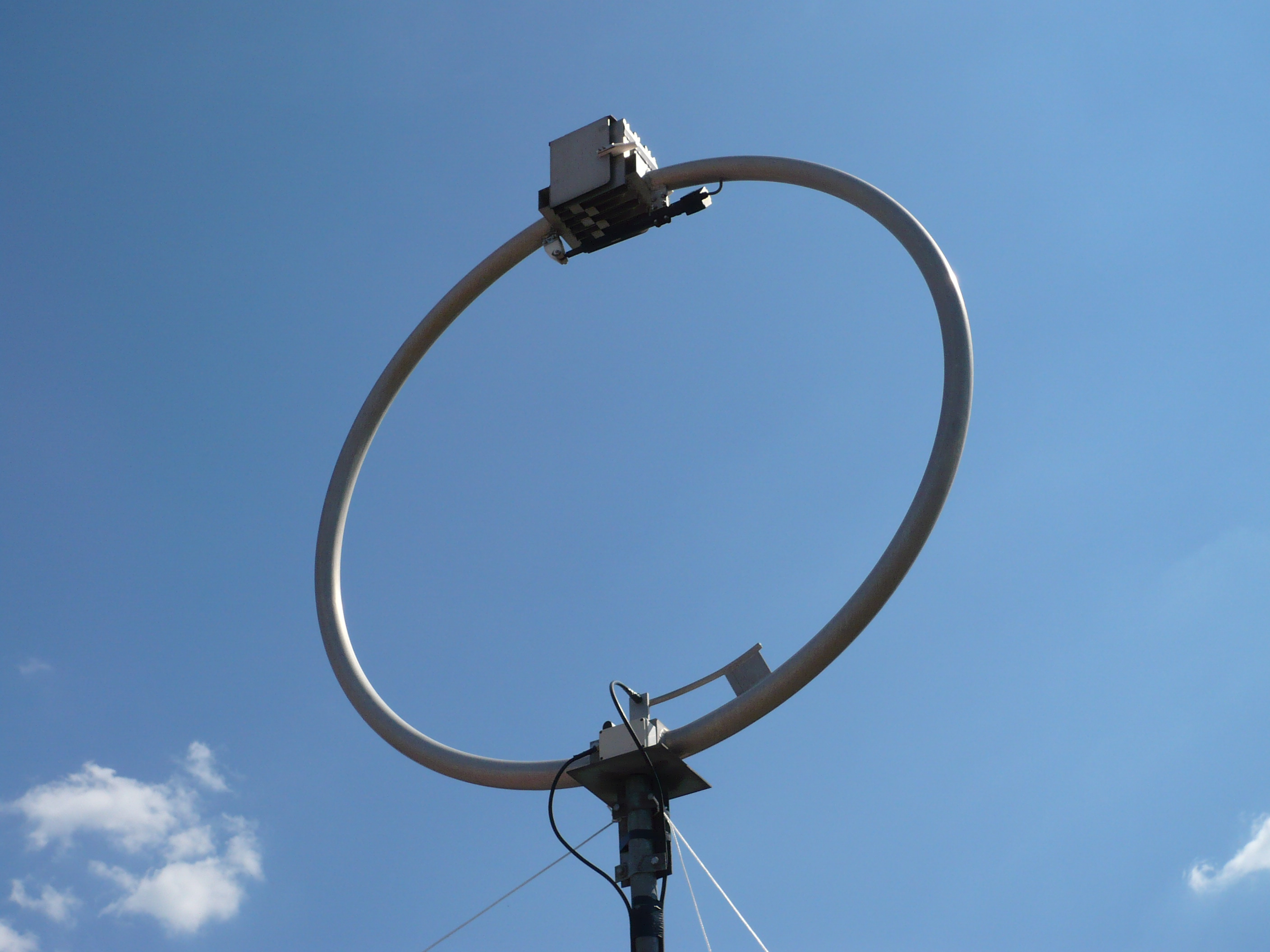 Loop antenna with automatic tuner unit (1.75–30 MHz). 2 meters diameter. Output 8 dBm into 50 ohm. Power: 250 W p.e.p.